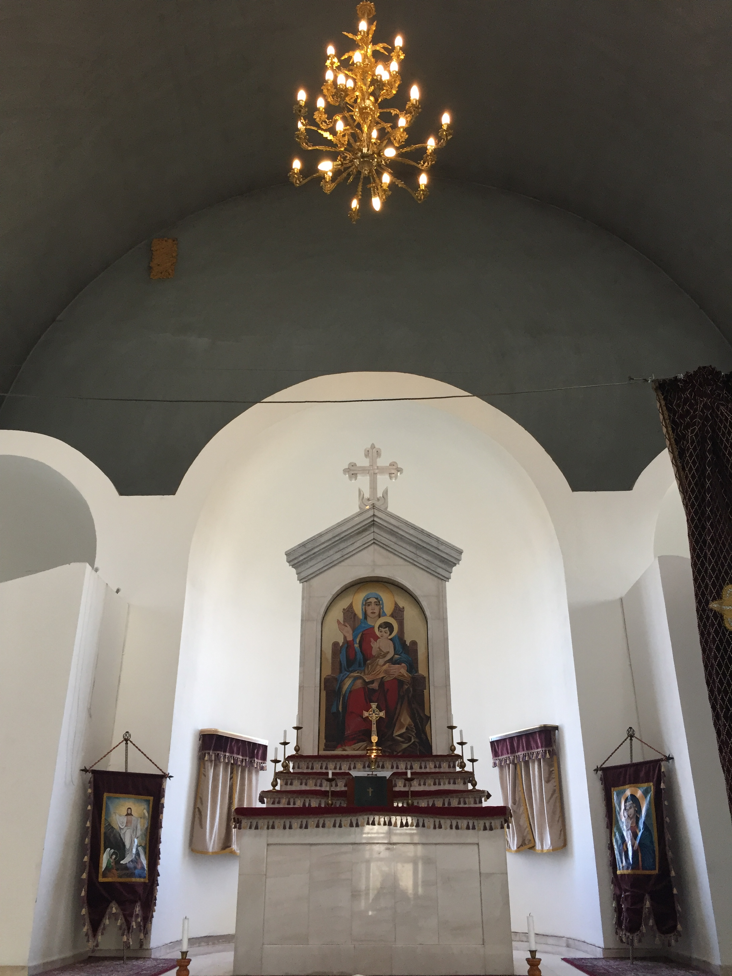 Church of Astvatsatsin: st. Lenina, 21, Big Salas, Myasnikovsky district, Rostov region